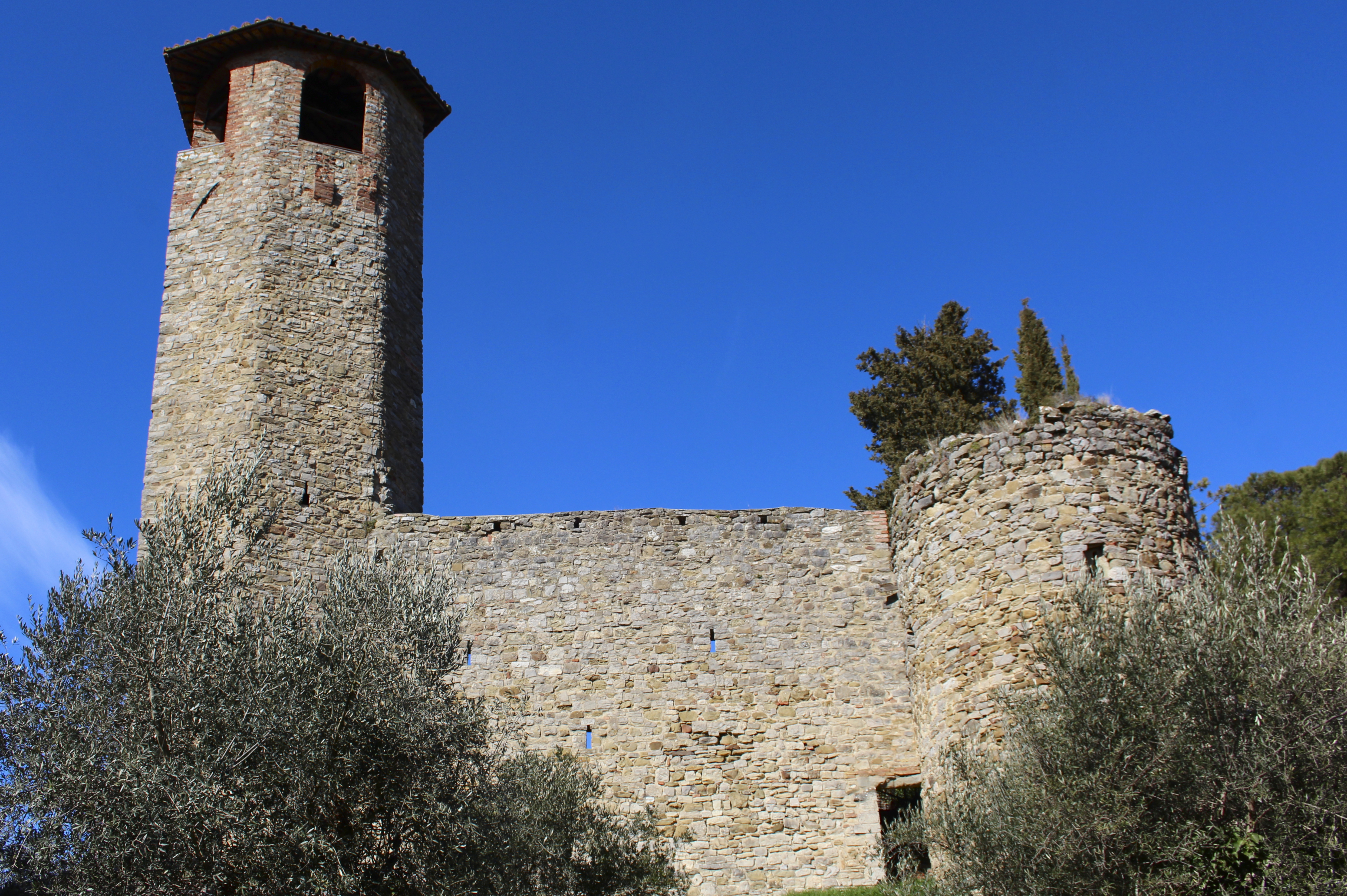 Castle Castello di Cibottola, territory of Piegaro, Umbria, Italy